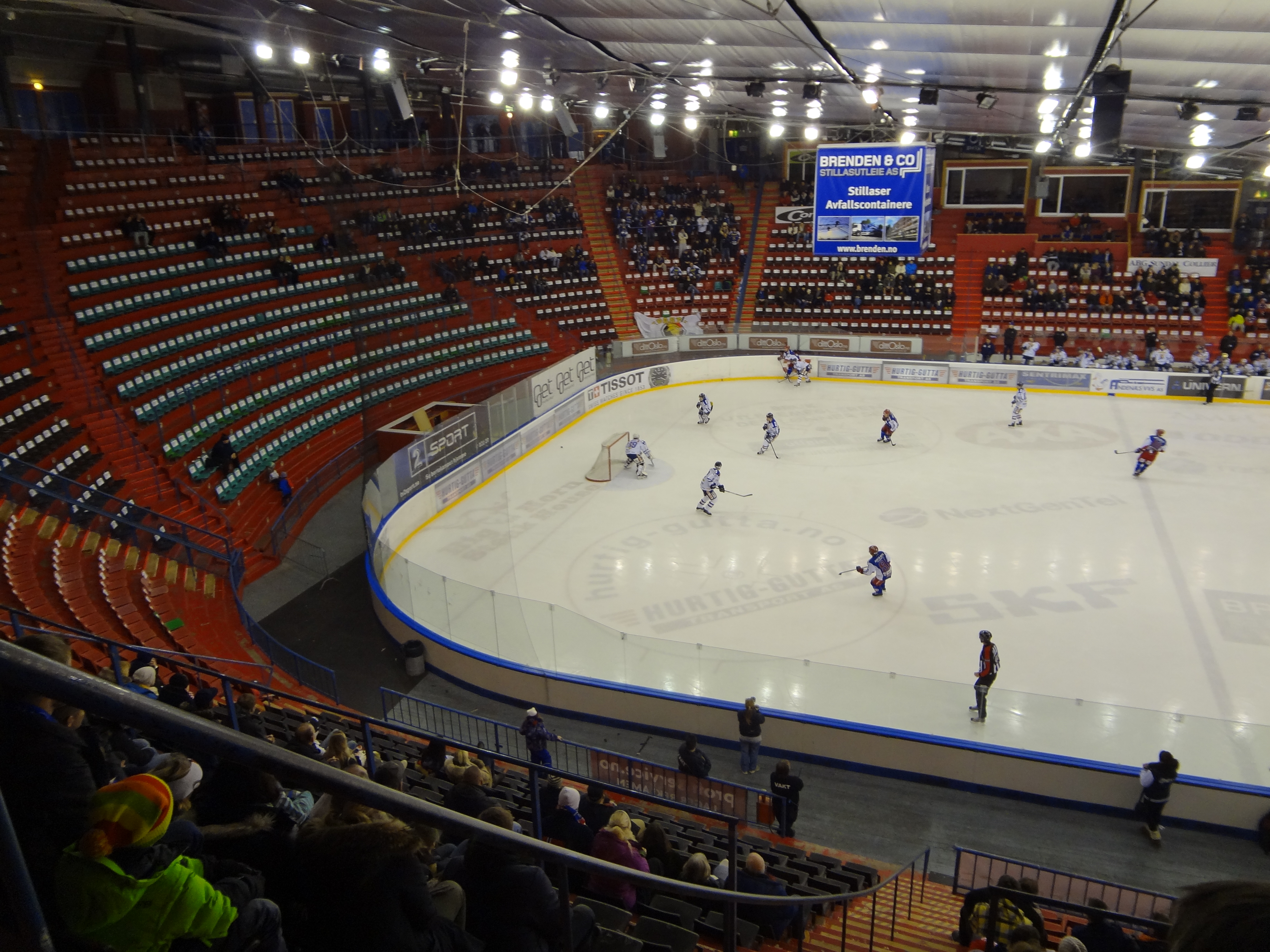 Photos from Ice Hockey match in norway Vålerenga Hckey Sparta Warriors